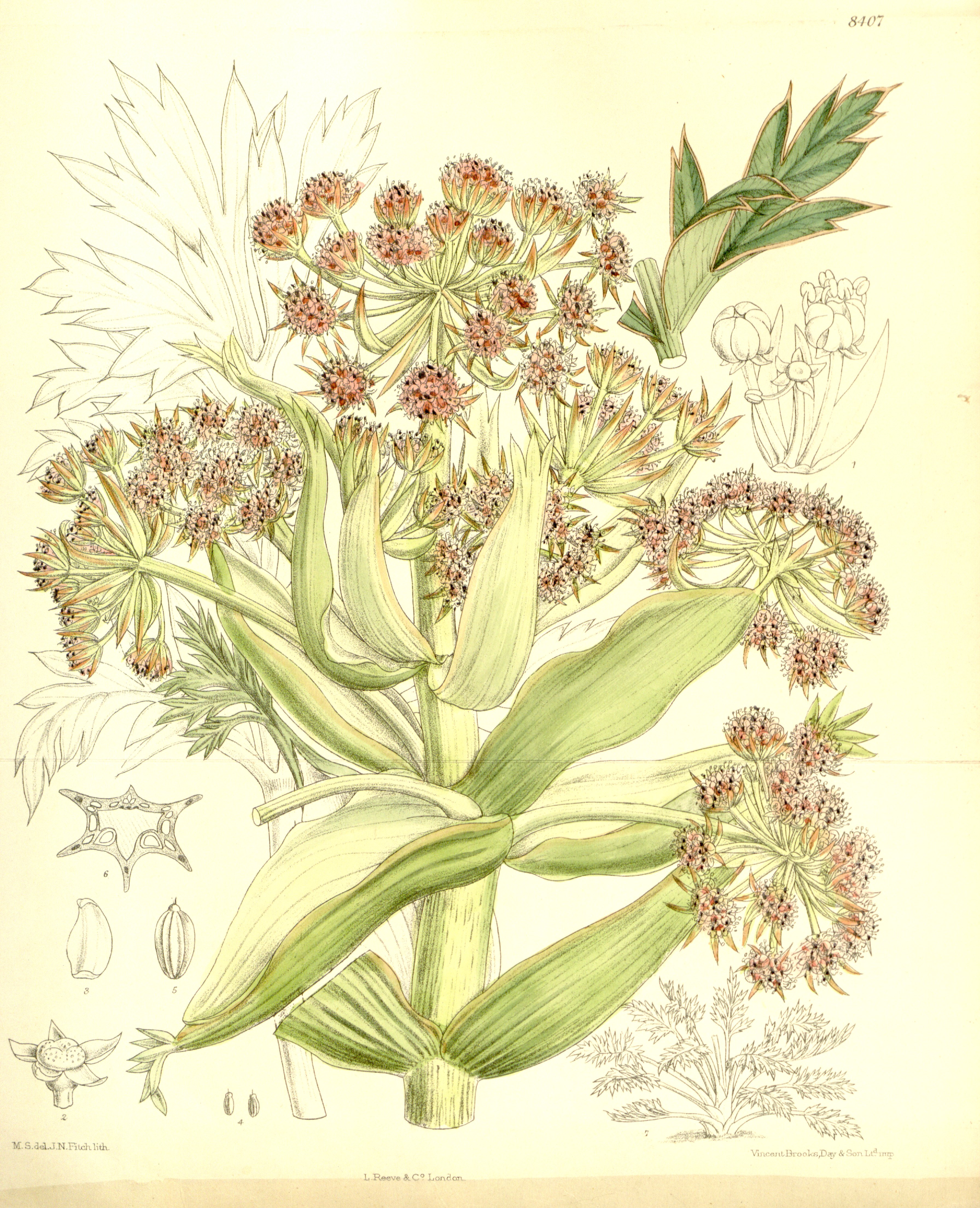 Aciphylla latifolia (currently known as Anisotome latifolia), Apiaceae